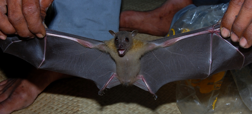 Minute Fruit Bat (Cynopterus minutus), forearm 54mm. From Simeulue, Aceh.